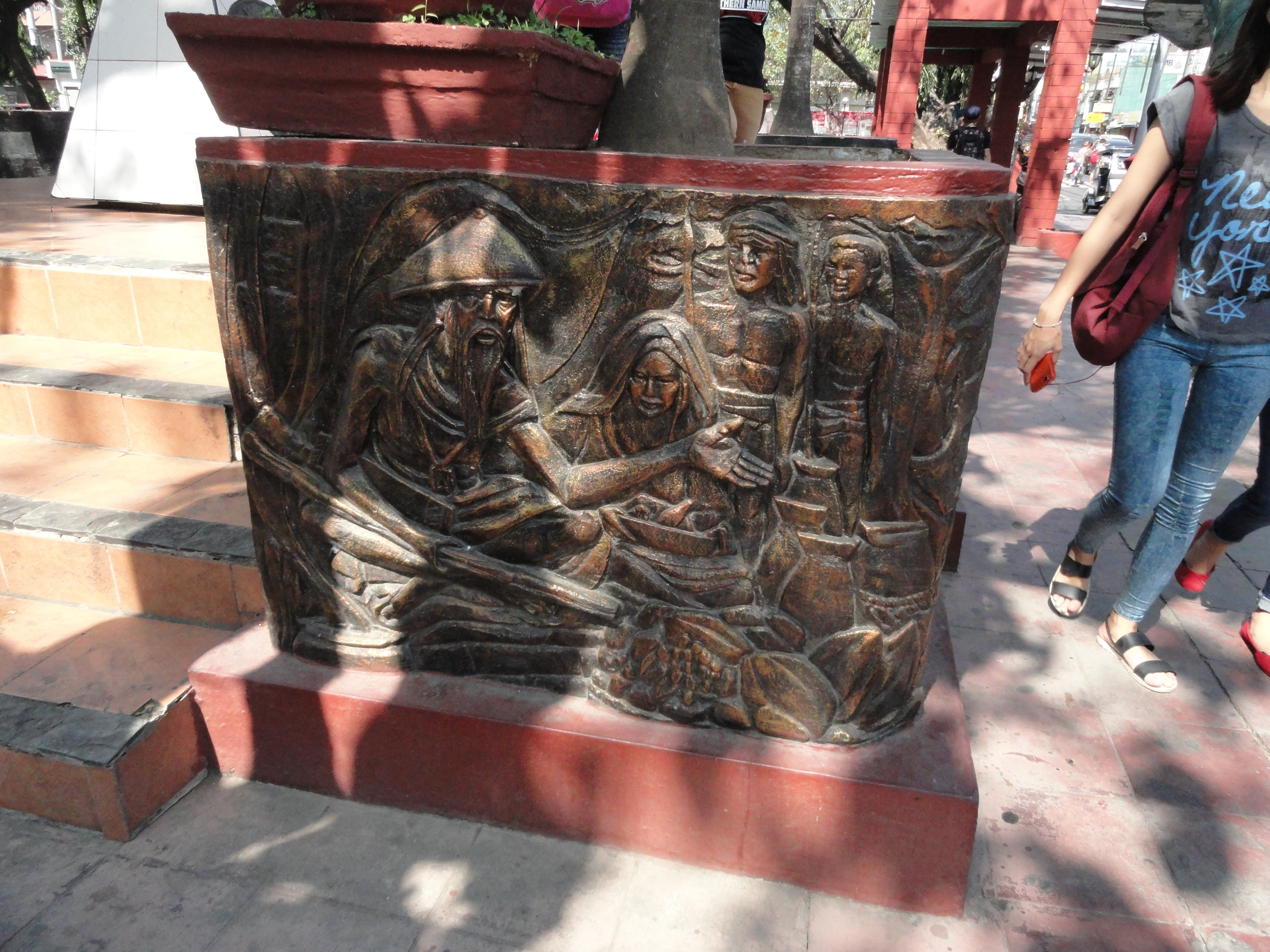 Angono Public Artwork